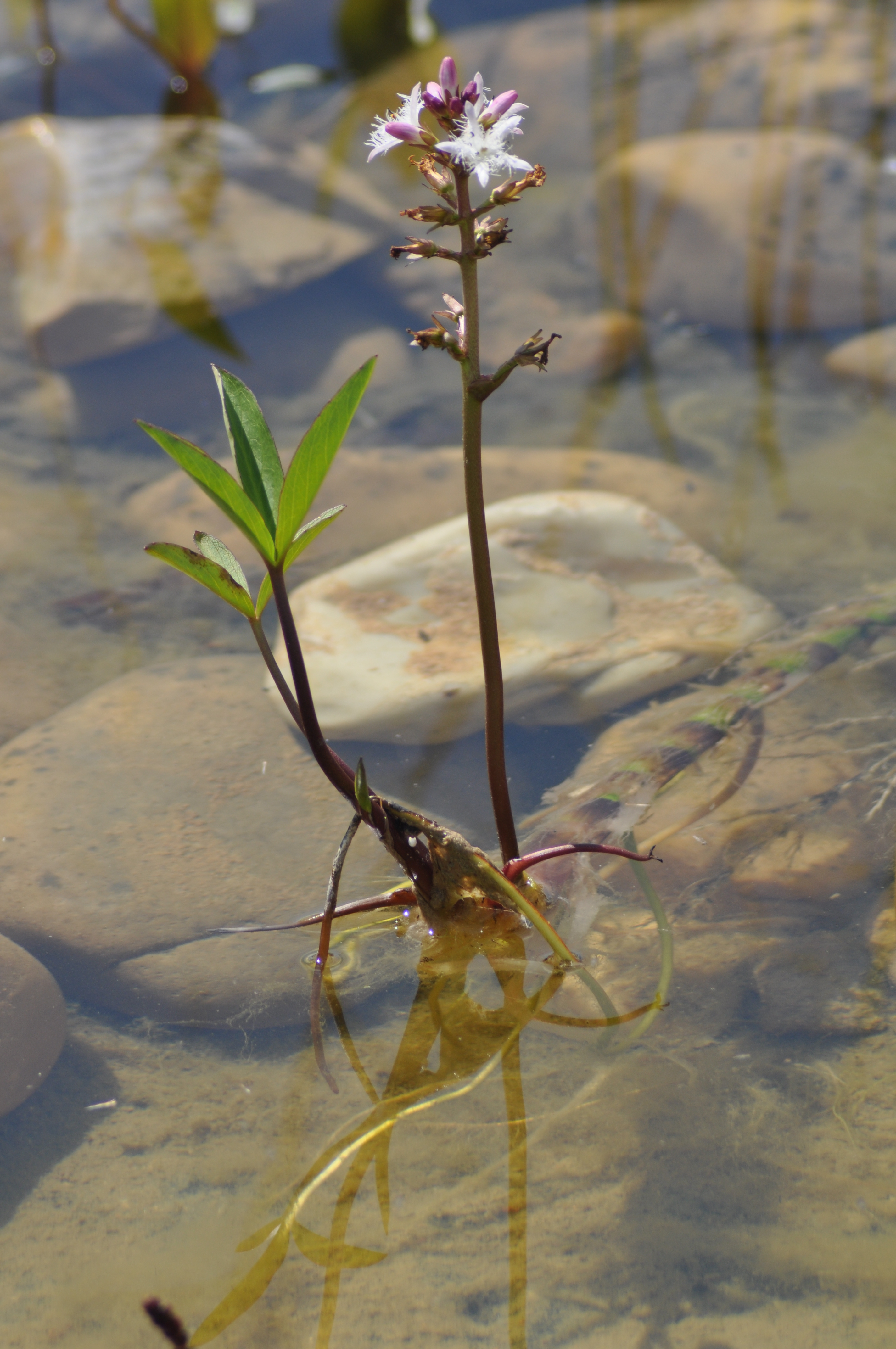 Cultivated in Real Jardín Botánico Juan Carlos I, Alcalá de Henares, Madrid, Spain